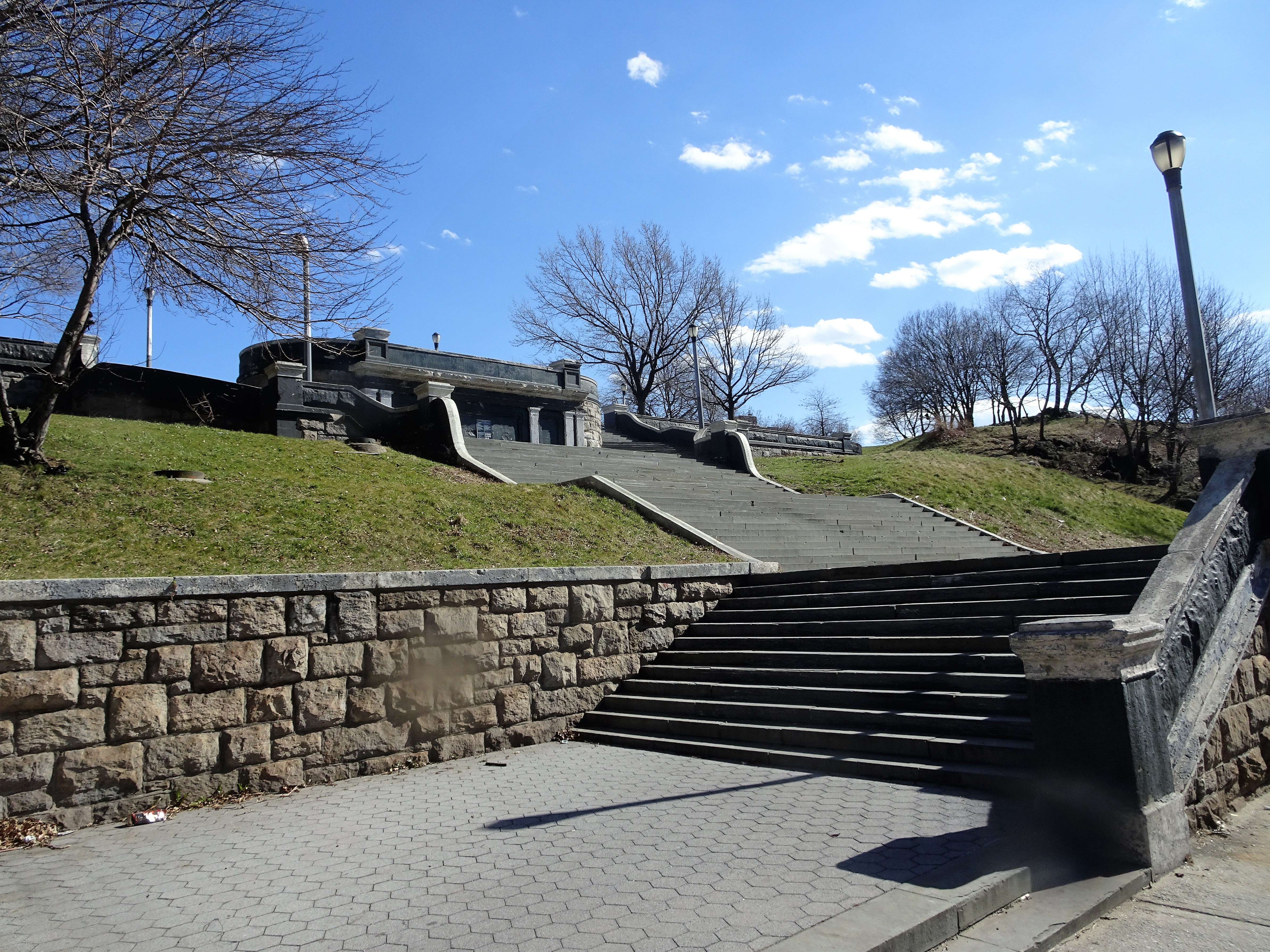 Looking south at stairs